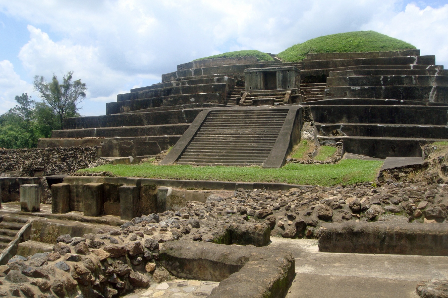 Top (western side) of the Tazumal main pyramid (structure B1-1) as viewed from the top of structure B1-2. Chalchuapa, El Salvador.